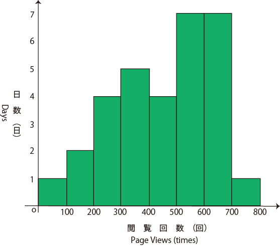 This histogram was made from the data of page views of Japanese wikipedia article "ヒストグラム"(Histogram) in January 2013.